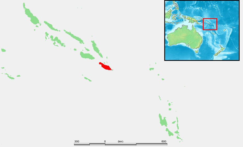 Island of Solomon Islands - San Cristobal.PNG